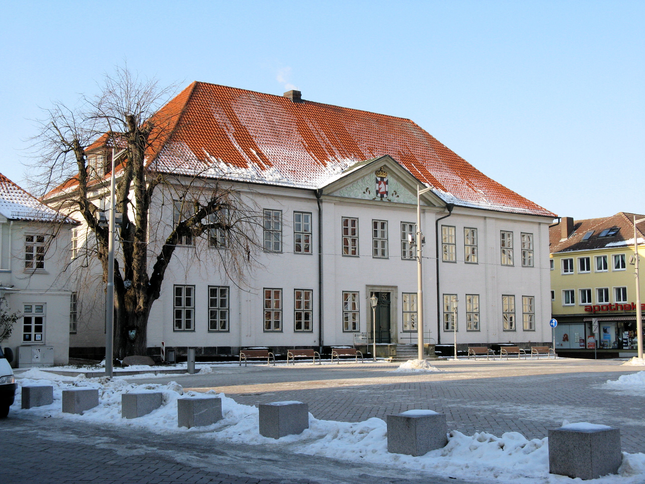 Altes Kreishaus, in Ratzeburg, district Herzogtum Lauenburg, Schleswig-Holstein, Germany